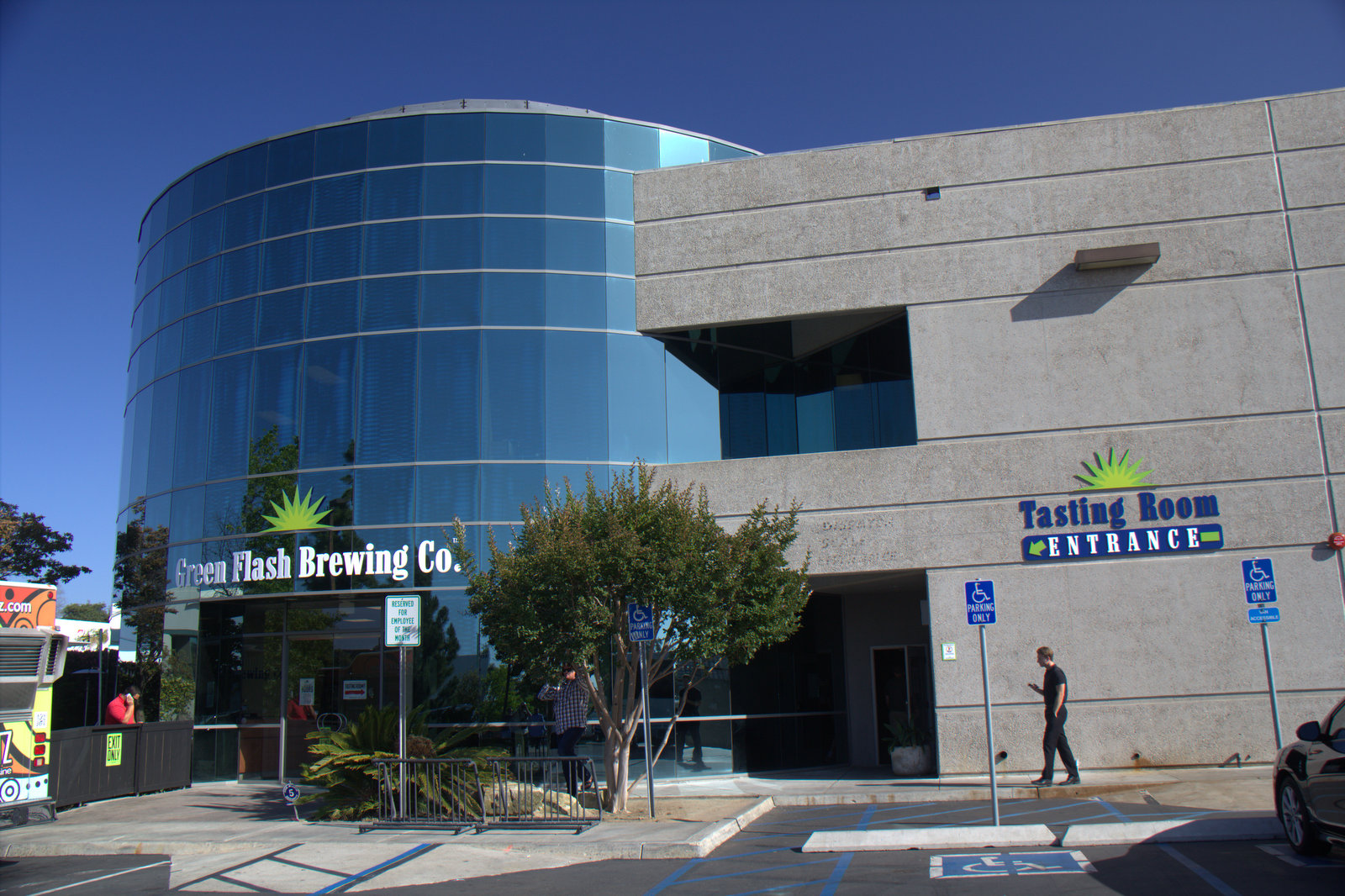 Exterior of Green Flash Brewing Company in Mira Mesa, San Diego, California.